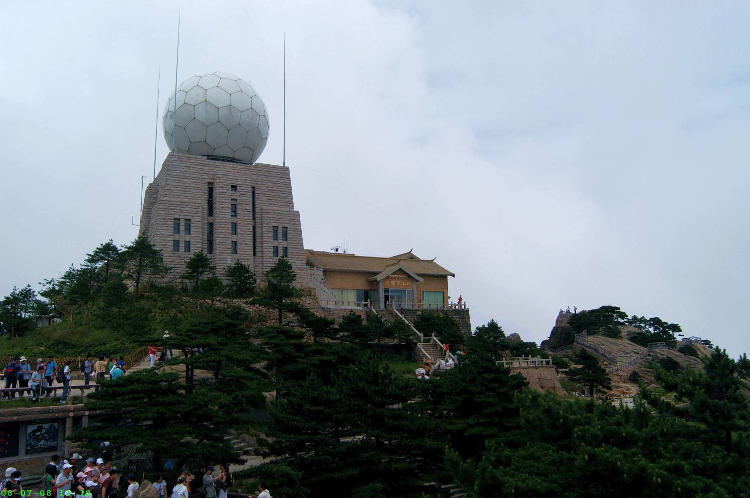 Guangming Ding, one of the highest points of the Huangshan Mountains